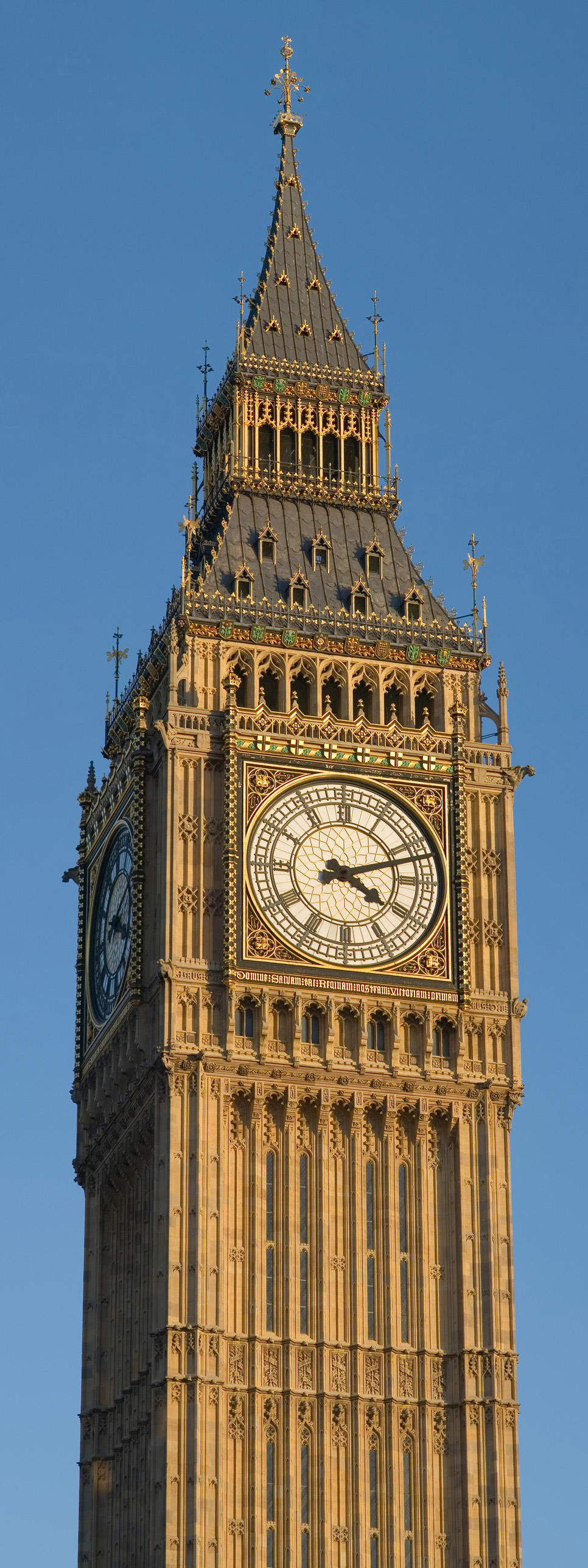 A 4 segment vertical panorama taken by myself with a Canon 5D and 24-105mm f/4L IS @ 105mm.